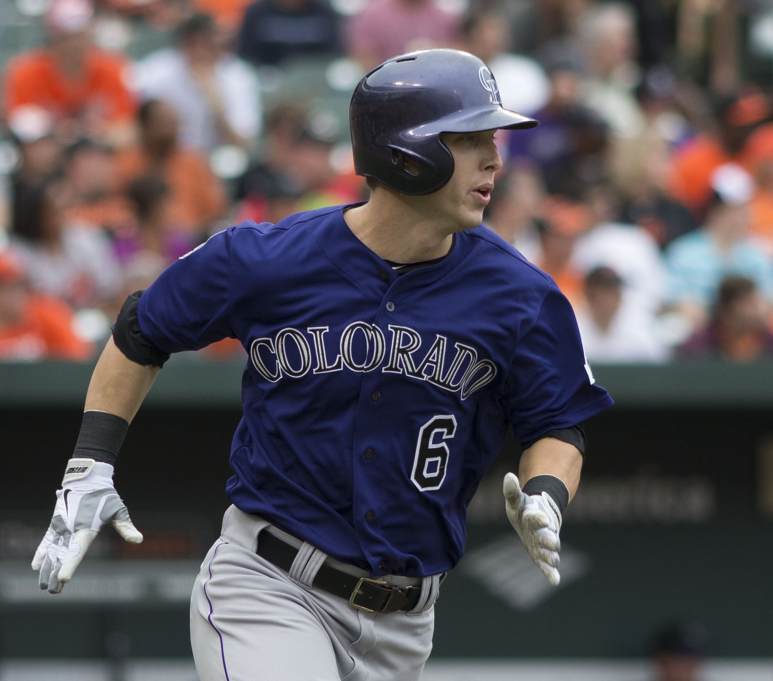 Corey Dickerson